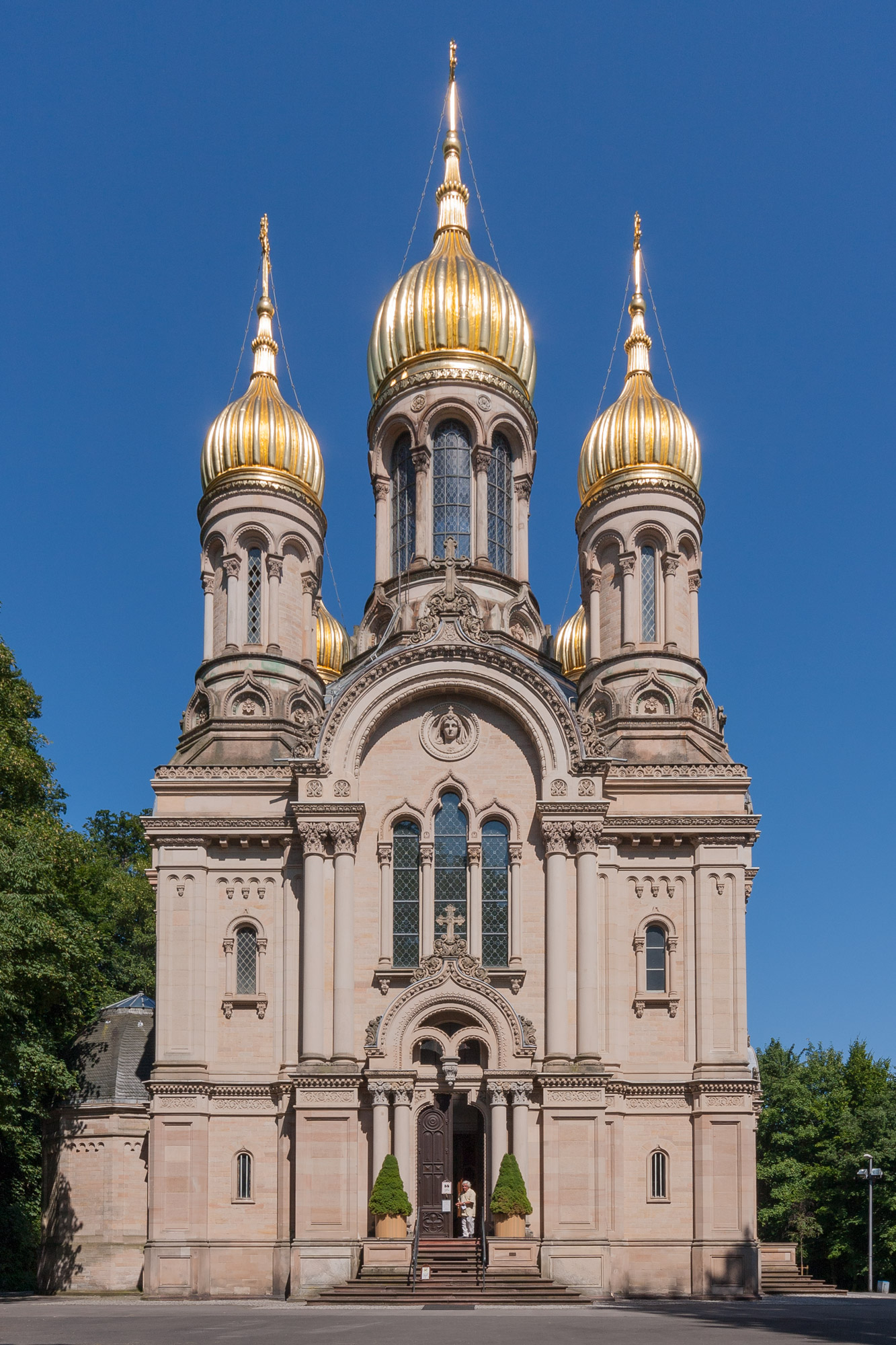 The Russian Orthodox Church of Saint Elizabeth in Wiesbaden